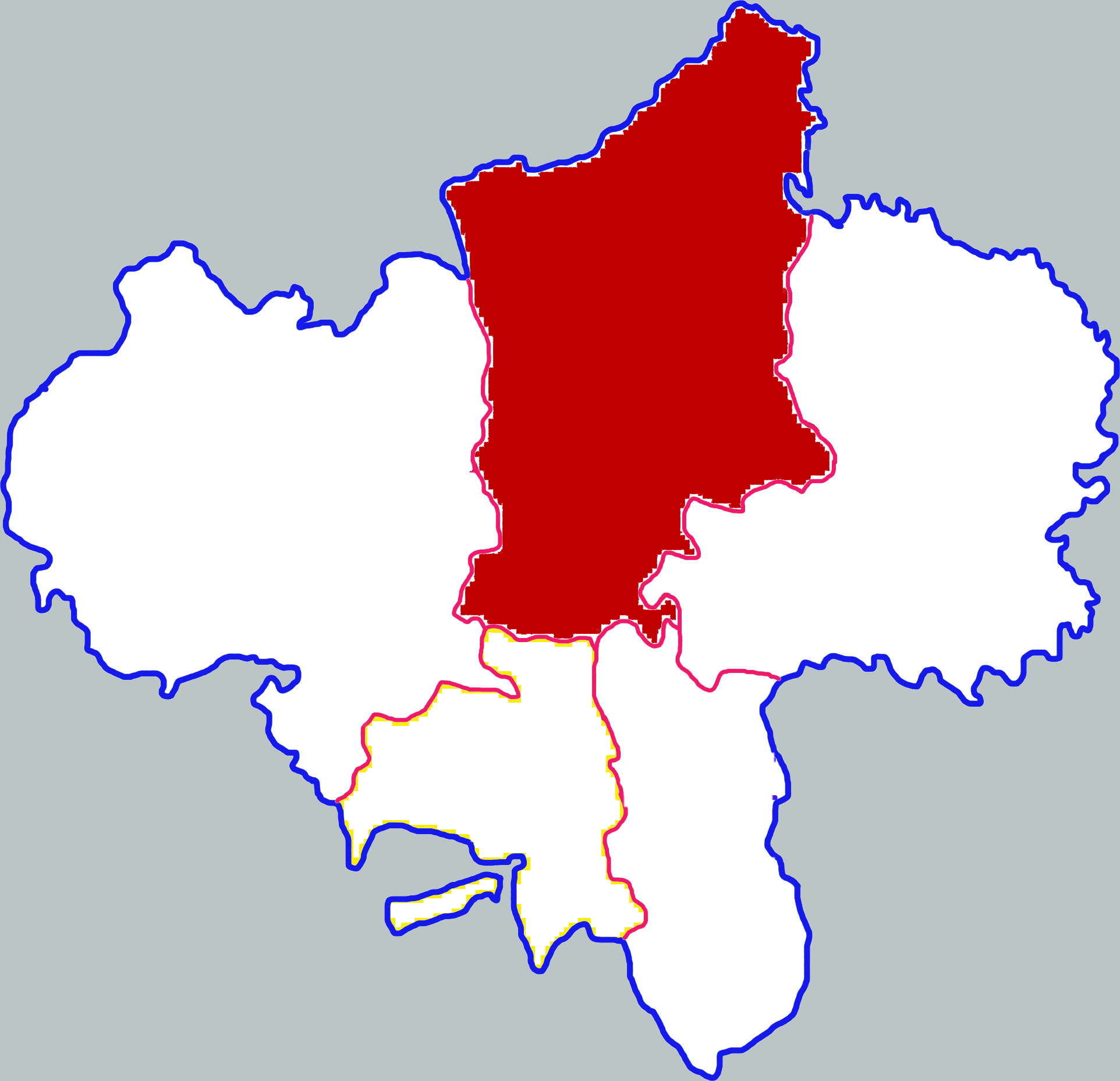 Location of Yuanzhou district in Guyuan city, China